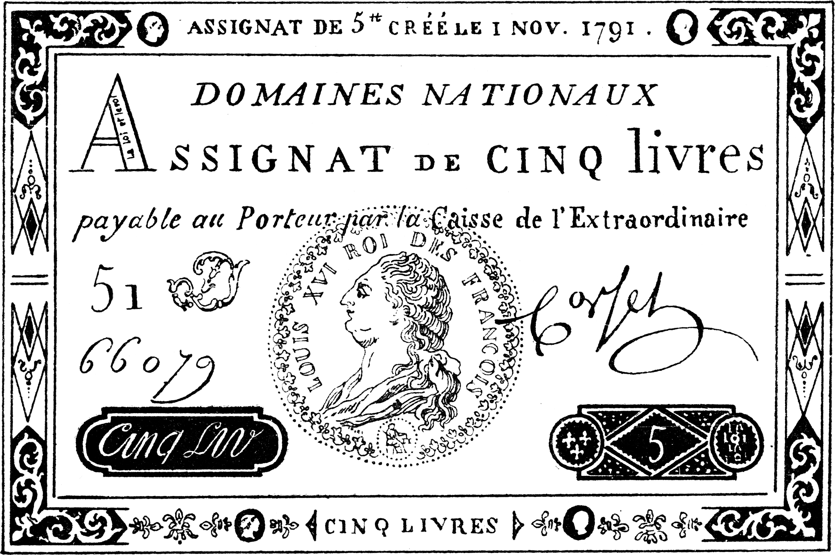 Copy of an assignment of 3 livres (Musée Carnavalet).